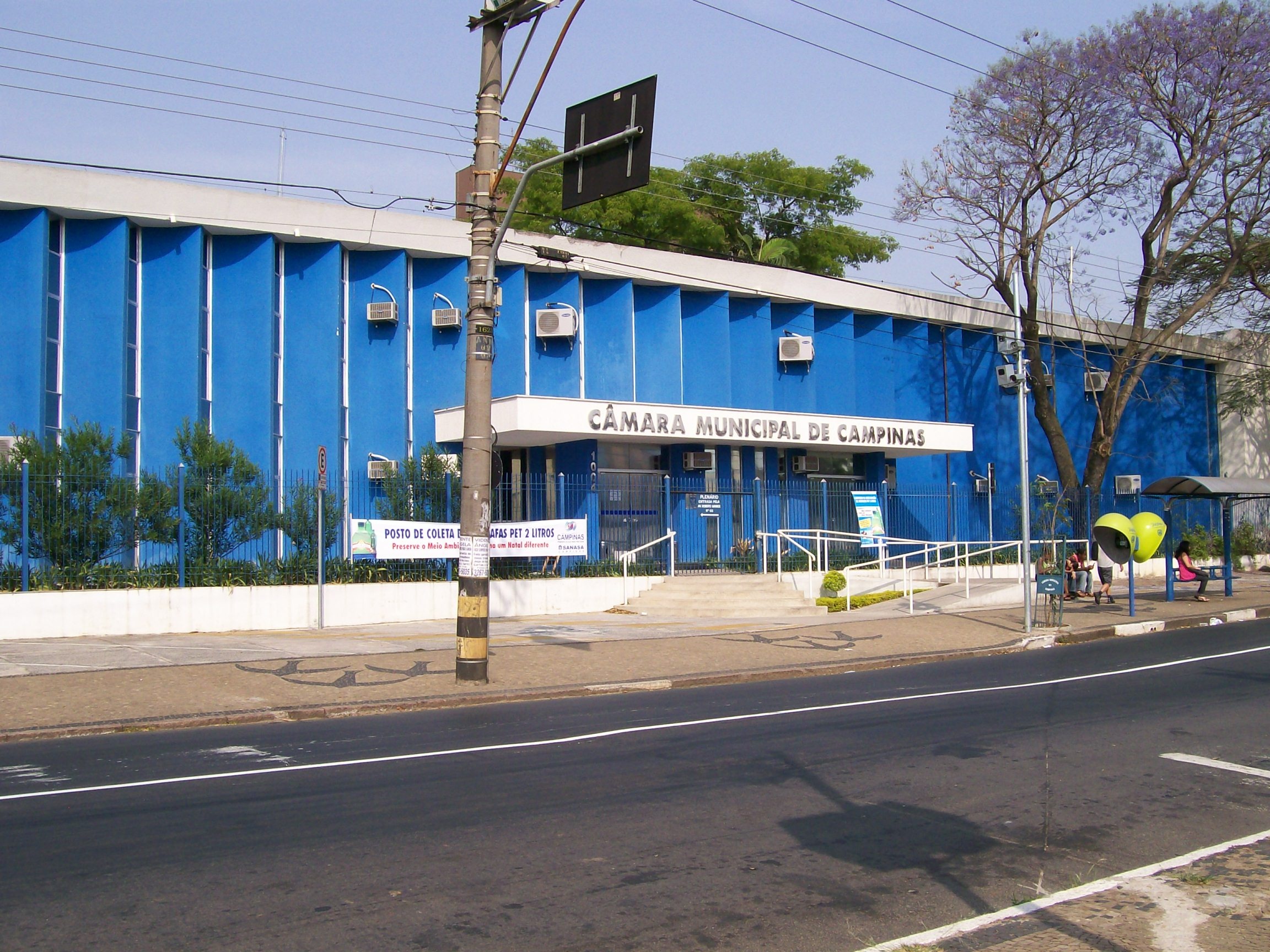 City Council of Campinas, located at Saudade Avenue